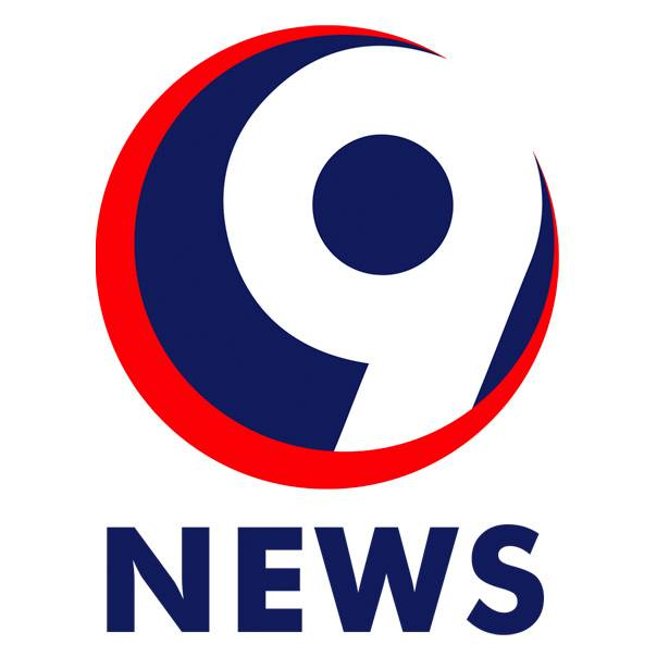 The logo of 9News, the news and public affairs programming division of the media conglomerate Solar Television Network.